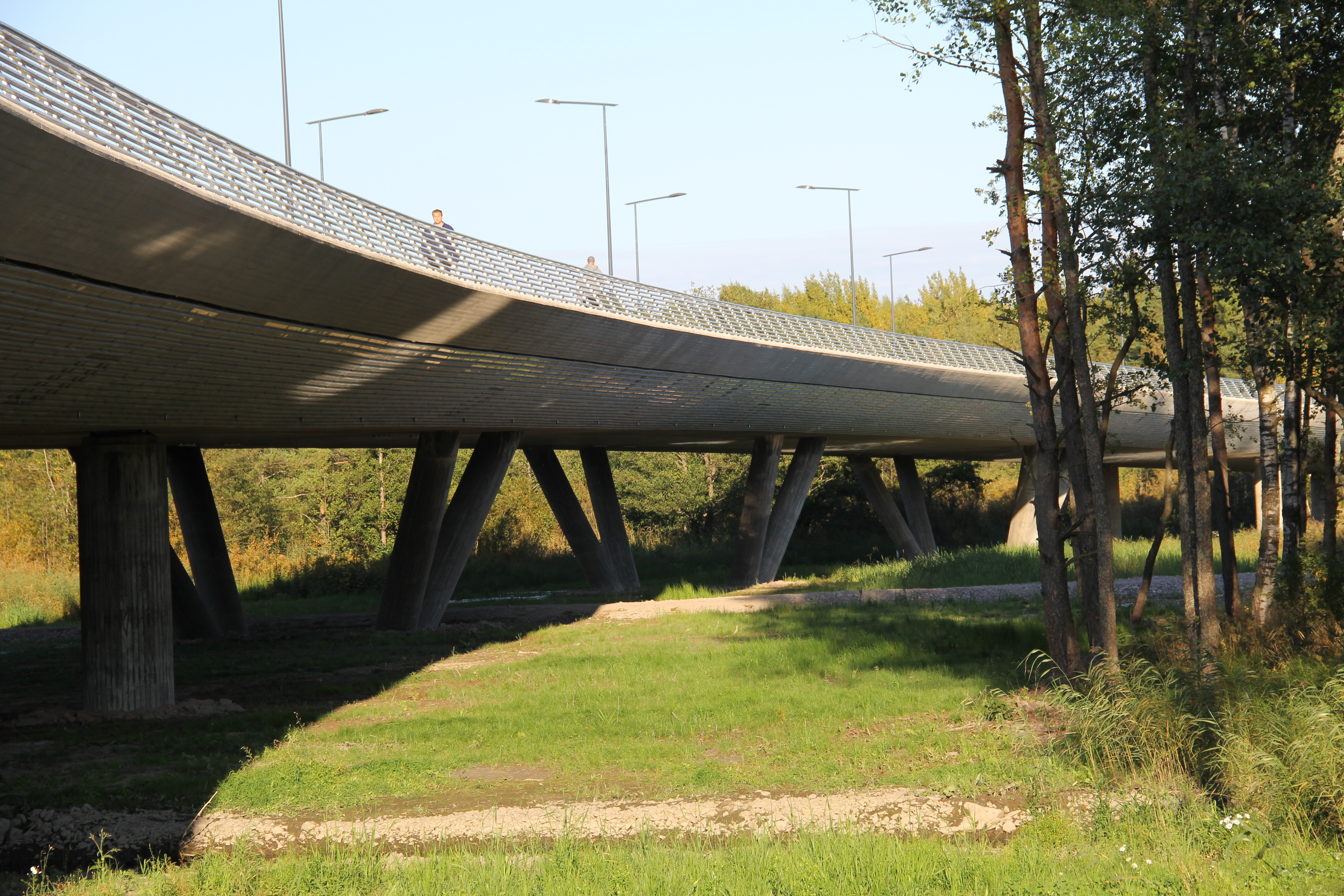 Finnevik bridge, Espoo, Finland. - Seen from Finnoo, southern side of the bridge.